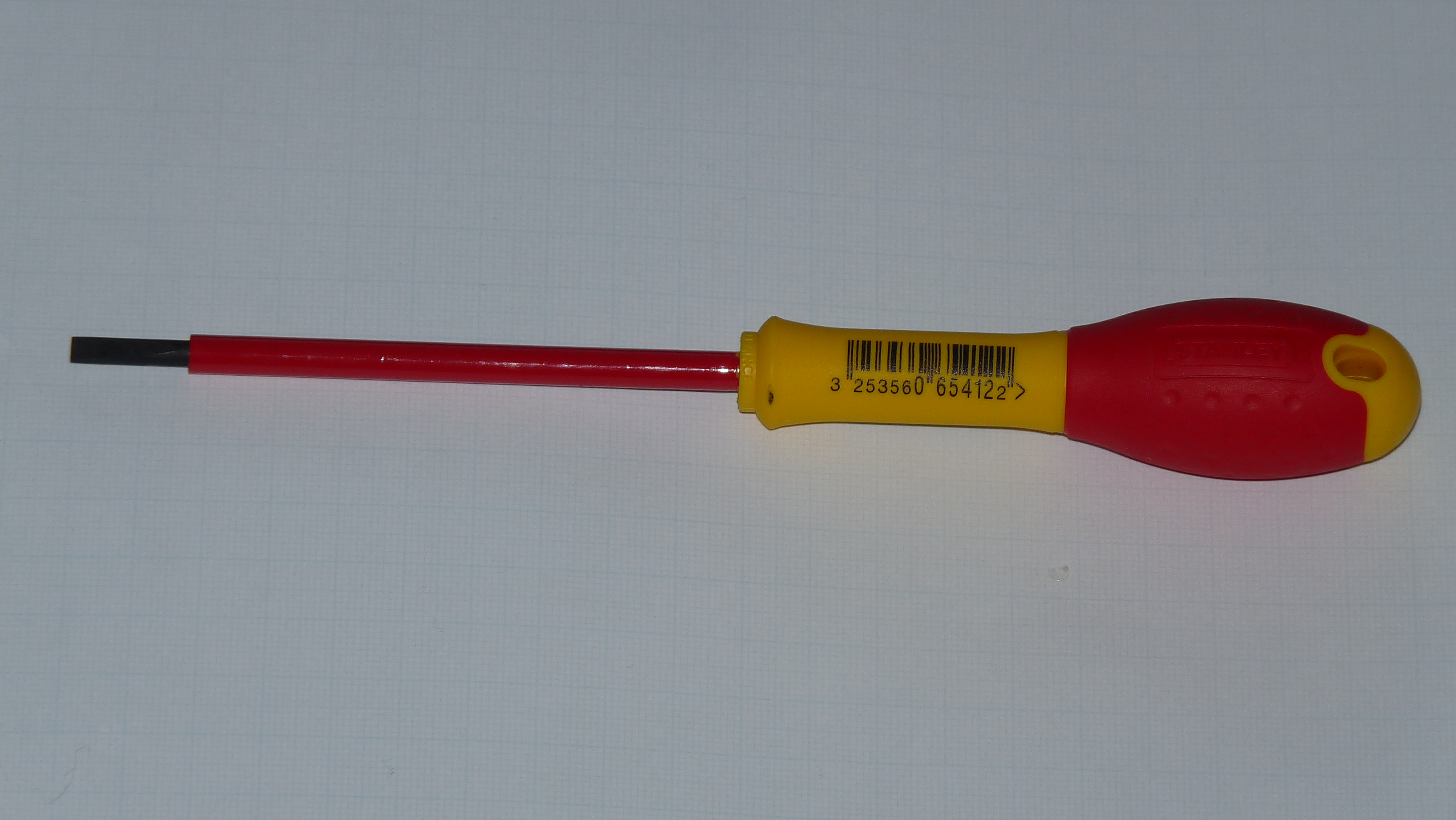 Insulated screwdriver, size 4x100mm